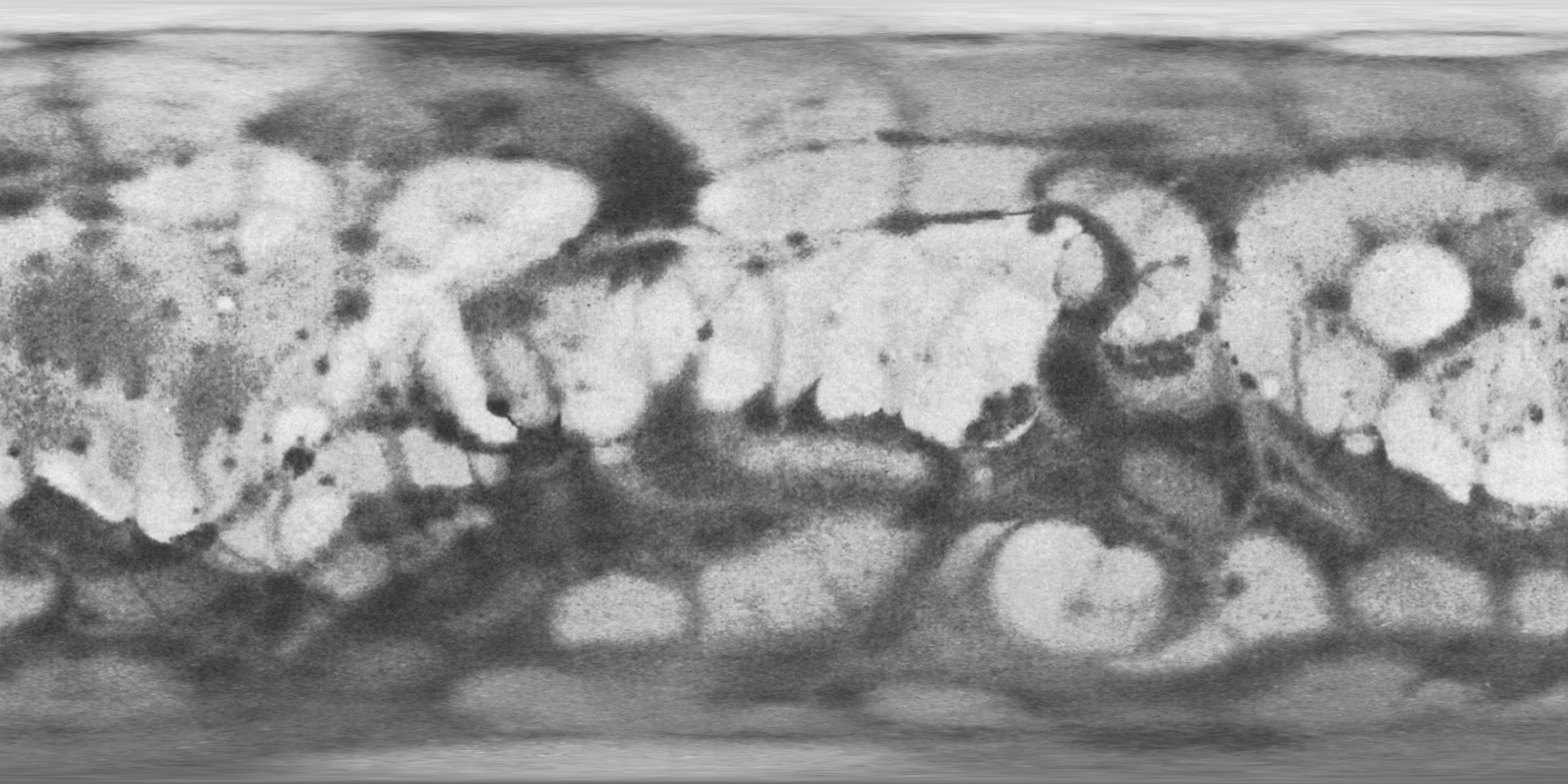 Mars map by EM Antoniadi Reprojected to SimpleCylindrical format with lat/long lines and labels removed